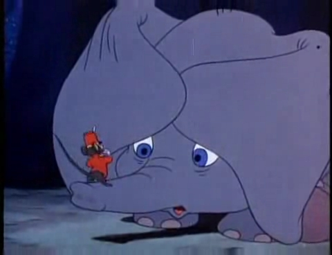 Screenshot of Dumbo from the trailer for the film Dumbo.